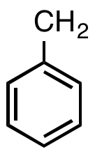 benzylic group unadorned